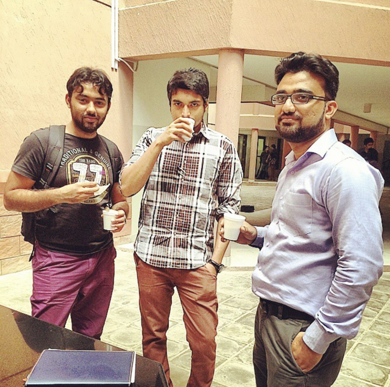 The place is known for the coffee and cake shop in the cbm building, where students meet and chat with each other.